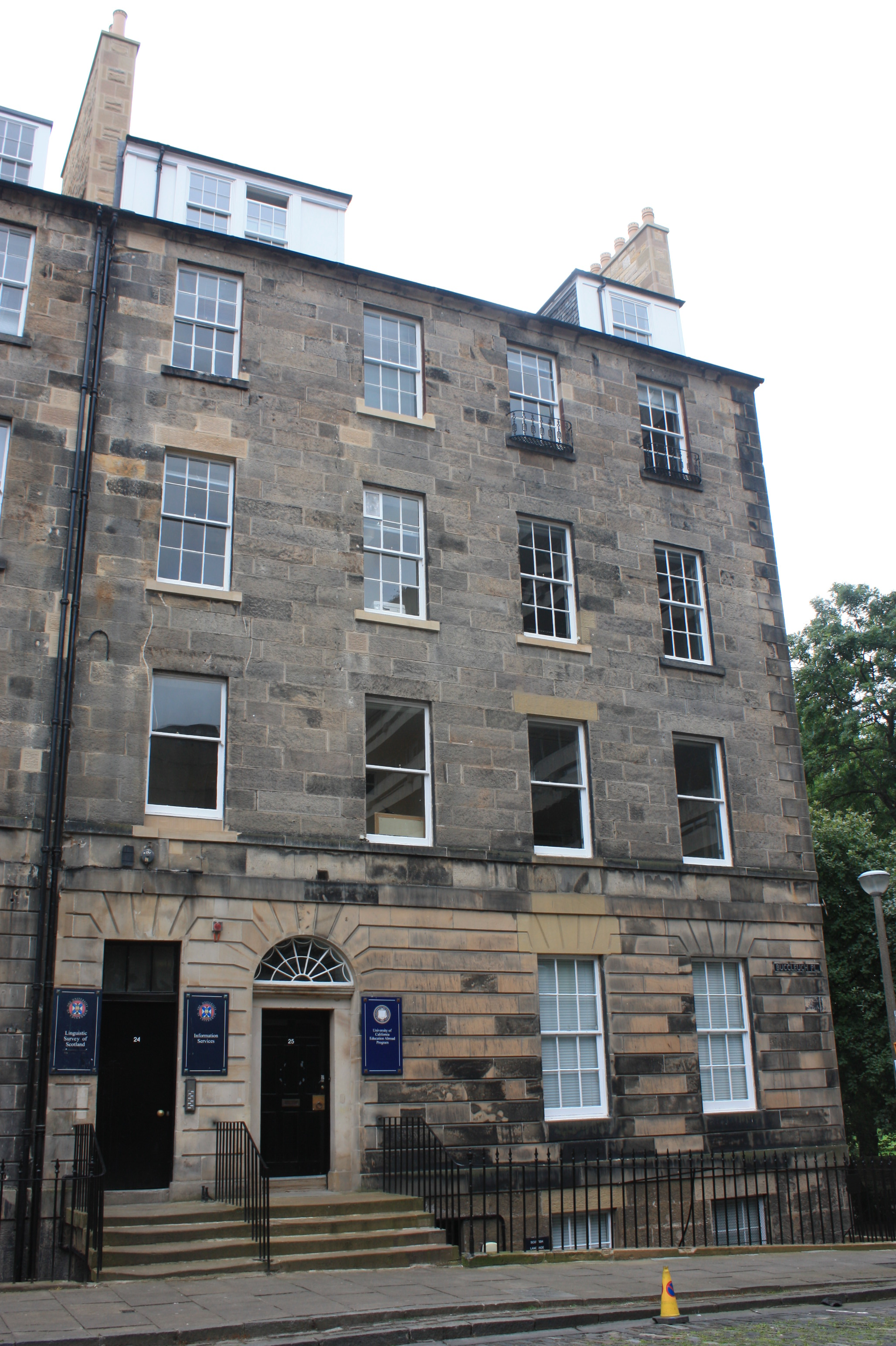 24,25 Buccleuch Place, Edinburgh